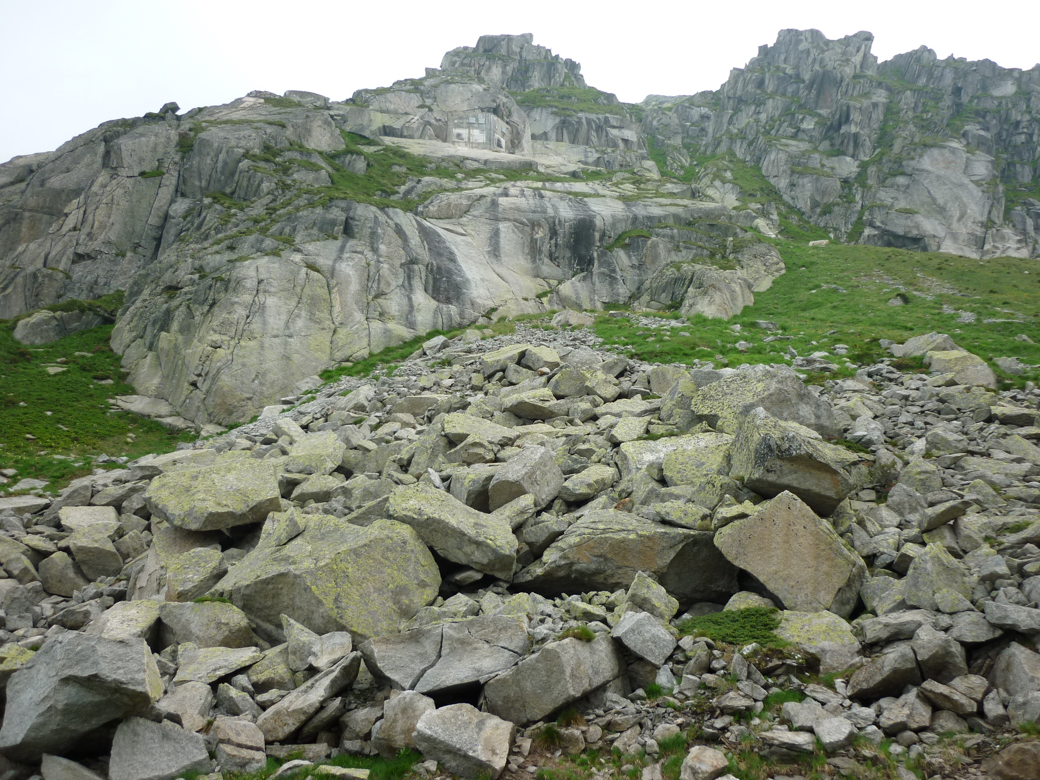 Fort Gotthard, Switzerland